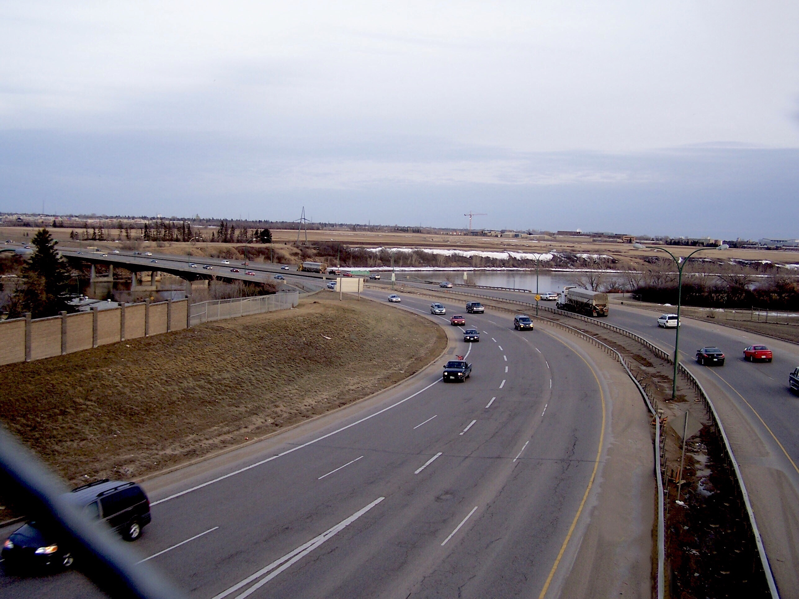 A view of the Circle Drive Overpass in Saskatoon.